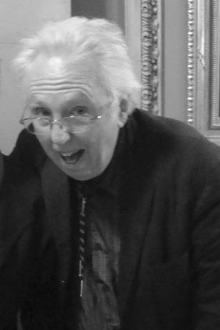 Bill Griffith, 25 March 2012, 23:50:03 This file has been extracted from another file: R. Sikoryak, me, Bill Griffith.jpgR. Sikoryak, me, Bill Griffith